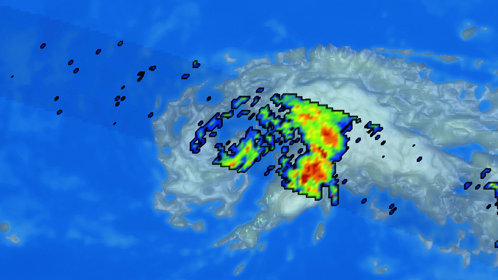 This Tropical Rainfall Measuring Mission (TRMM) satellite image of Tropical Storm Kyle was captured on October 3, while the storm was still far from land. The swath of the orbiter can be seen across the swirl of Kyle's cloud tops, where the different colors reveal rain intensity and structure. In this image blue indicates light rain and red indicates heavy rain. While rainfall in the eastern rain band appears impressive, TRMM unveils why Kyle ultimately failed to strengthen--poor organization of rain around the eye. The rain bands do not form a completely circular eyewall, and only light, sporadic rains are found in the northwestern quadrant. Since hurricanes derive their energy from condensation of water vapor into rain, the lack of organized rains all the way around the inner core of Kyle suggest that this storm's "heat engine" was not operating at peak capacity. While TRMM occasionally captures spectacular images of intense rain clouds within the interior of powerful Atlantic hurricanes, it is also important to study marginal storms such as Kyle to determine why some tropical disturbances thrive while others fail. Ultimately this knowledge will lead to better predictions of which tropical cyclones pose the greatest U.S. threat.